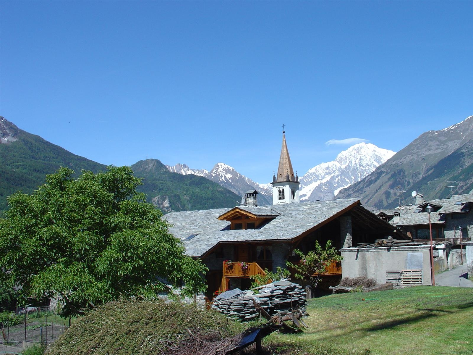 The village of La Salle in in the Aosta Valley, with the Mont Blanc in the background